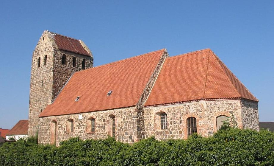 Stonechurch Mörz, start of construction probably in 12th century. The village Mörz is a part of the municipality Planetal in the district Potsdam Mittelmark, state Brandenburg, Germany. The village appertains to the natural preserve Naturpark Hoher Fläming.